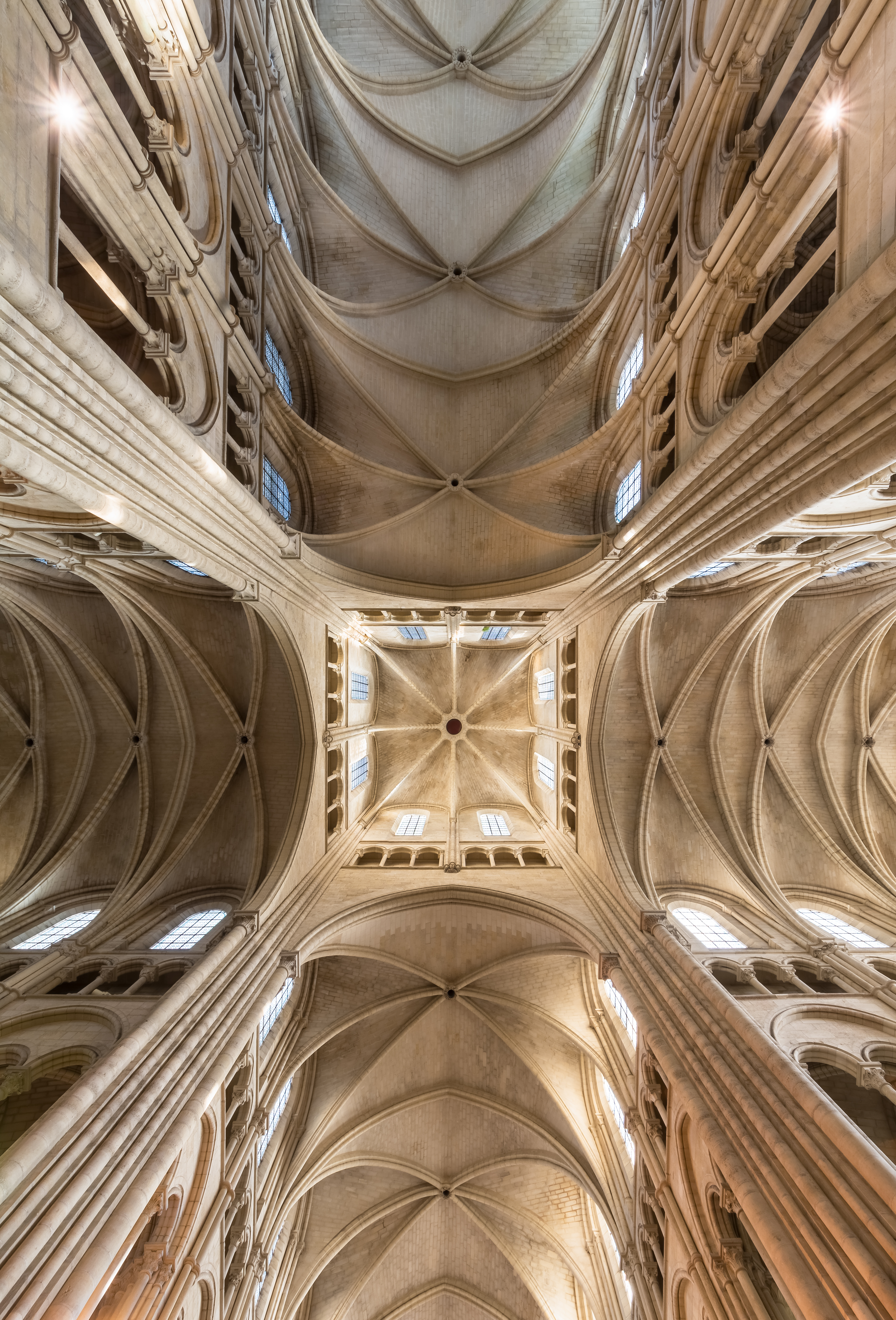 Vaults and roof lantern of Laon Cathedral Notre-Dame, Picardy, France